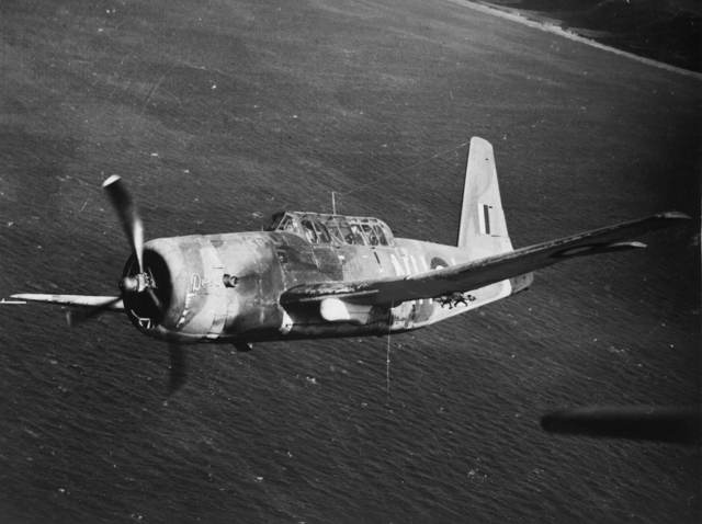 A RAAF Vultee Vengeance dive bomber on a patrol over the ocean